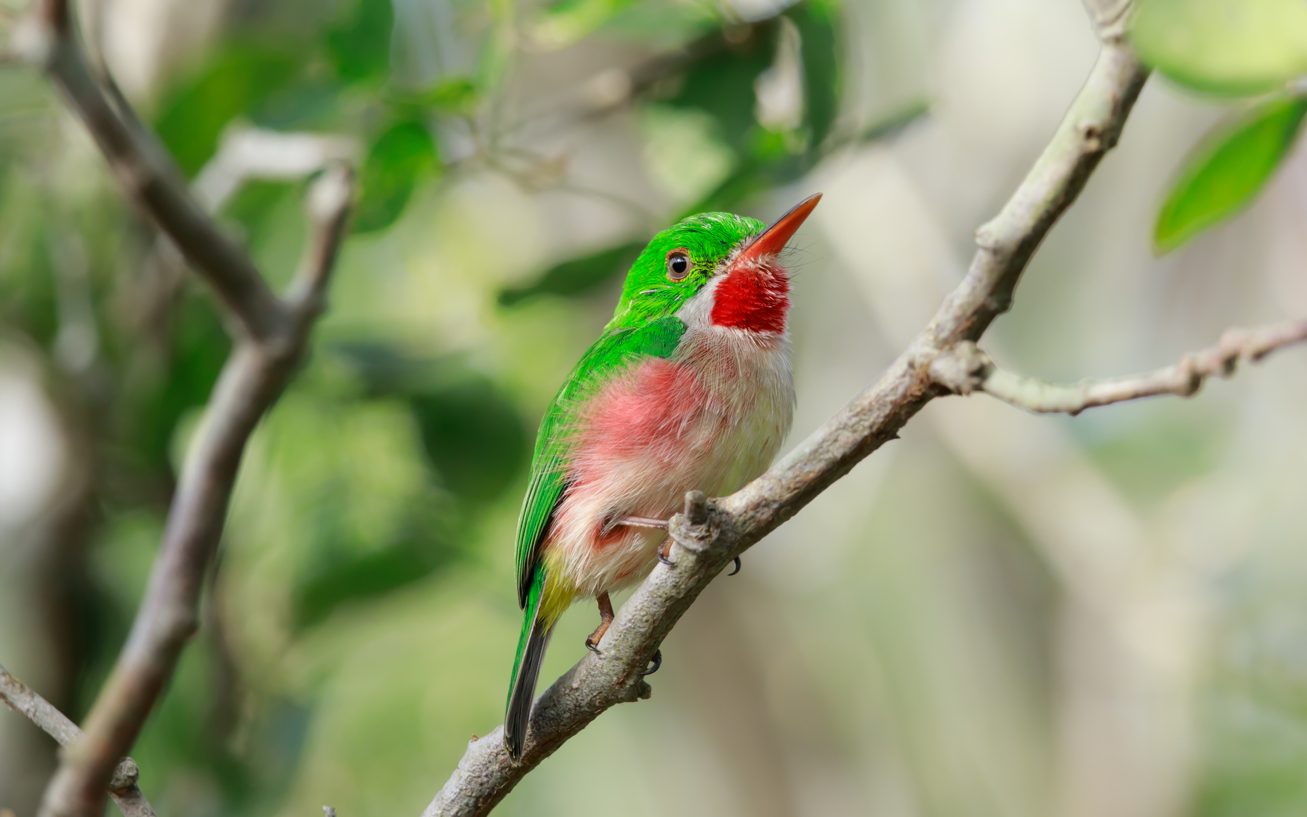 Broad-billed Tody near Bayahibe, Dominican Republic.